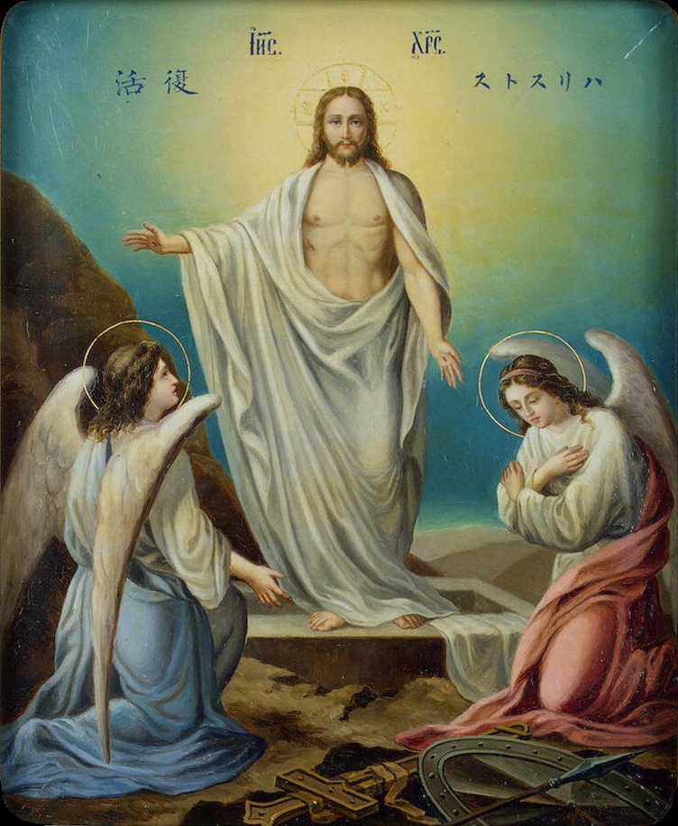 Resurrection, by Yamashita Rin (Reverse: Orthodox Church of the Resurrection of Christ in Tokyo), Hermitage, St Petersburg; see journal article